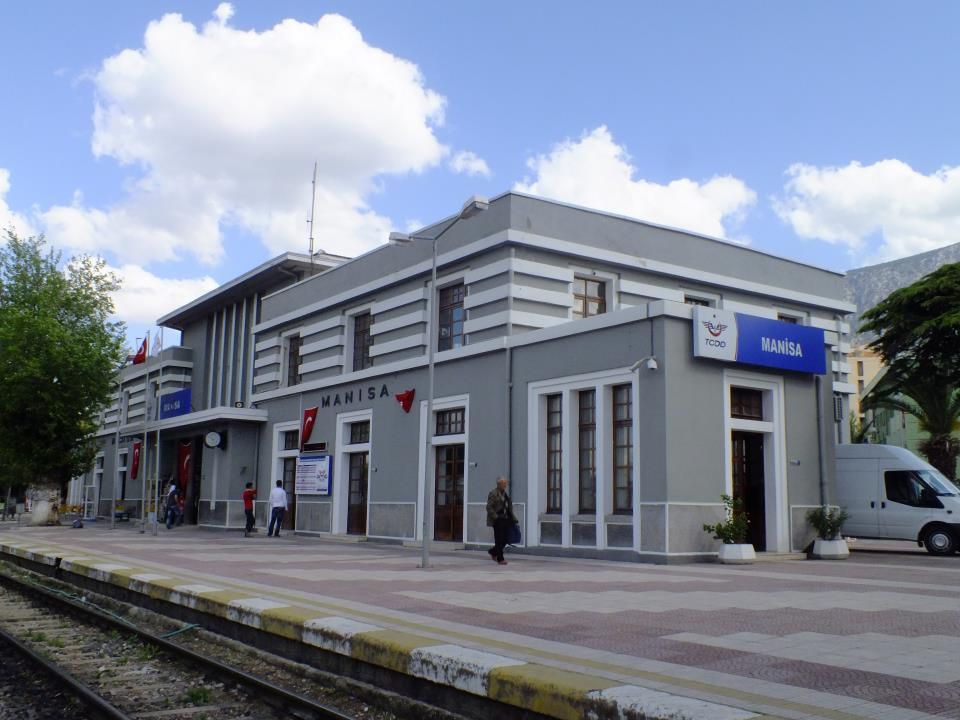 Manisa station building.